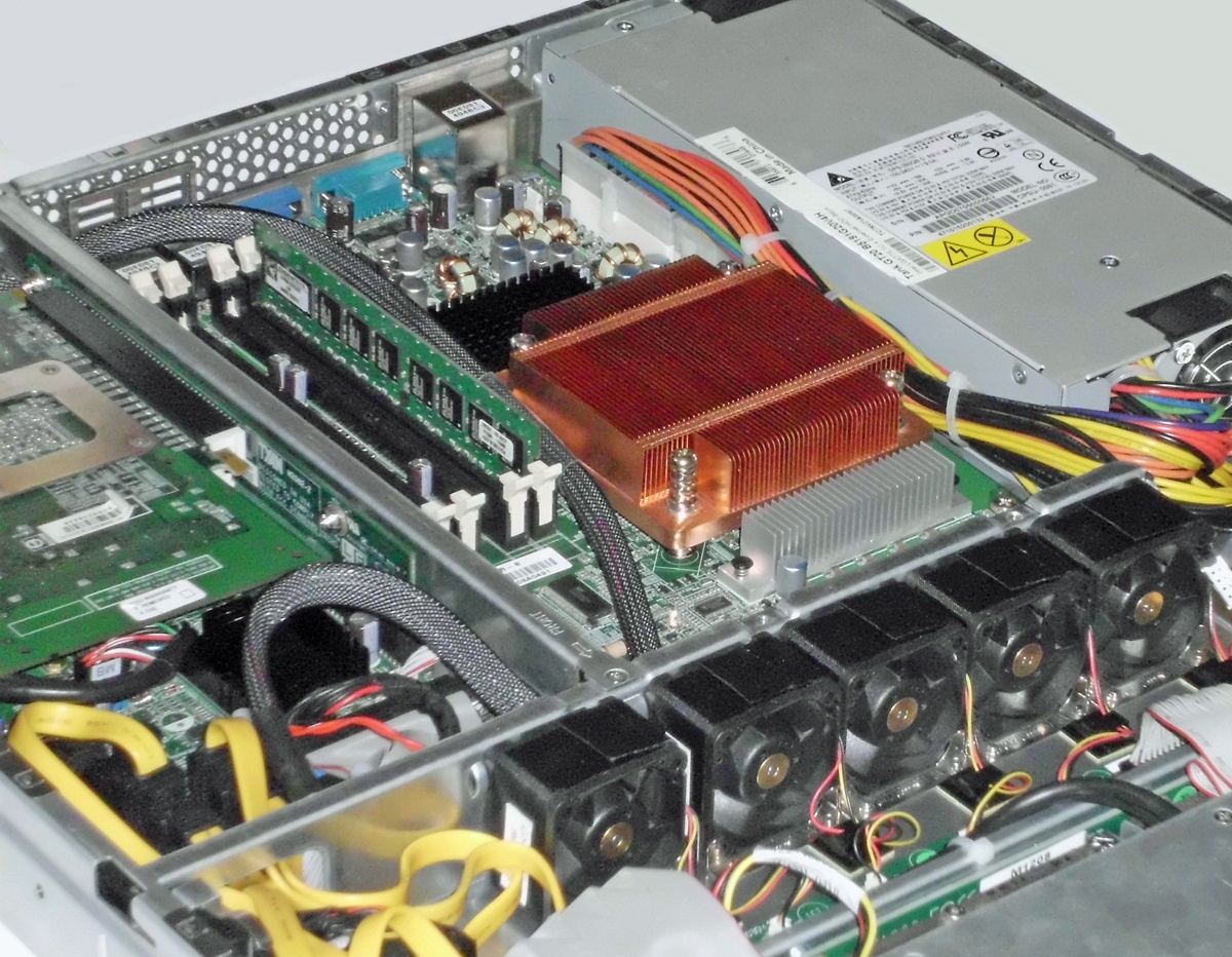 Semi passive cooling in an 1U rackmount server. Cooling system with 40mm(15000 rpm)fans and passive heat-sinks.